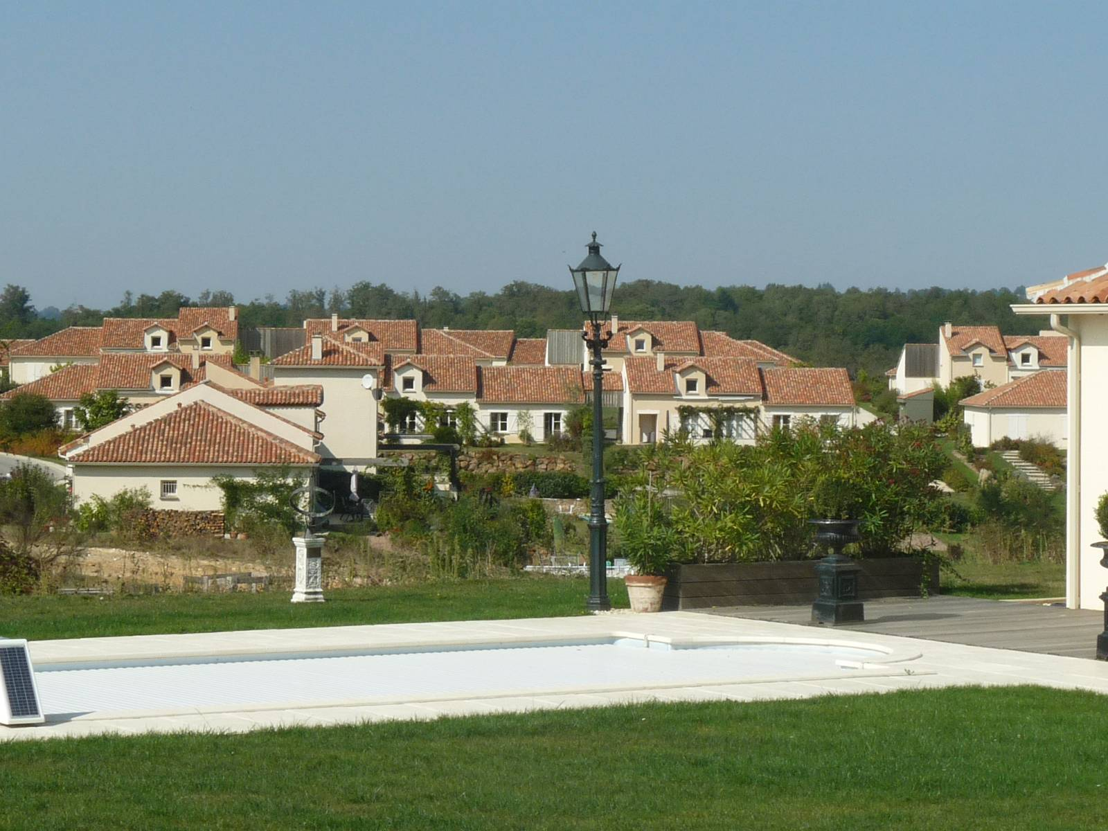 dutch village resort at La Prèze, Rouzède, Charente, SW France